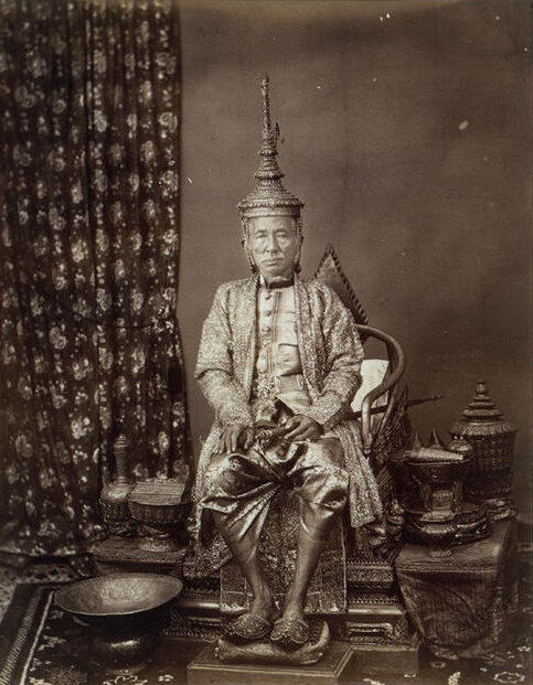 Photograph of King Mongkut on his Throne